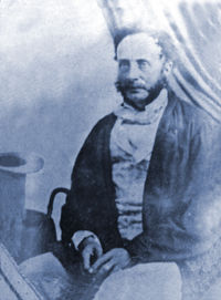 Photograph of Benjamin Chilley Campbell Pine (1809–1873), Lieutenant-Governor of Natal Colony, Governor of Ghana, Governor of Western Australia (appointed but never took office), Governor of the Leeward Islands, Governor of Antigua.